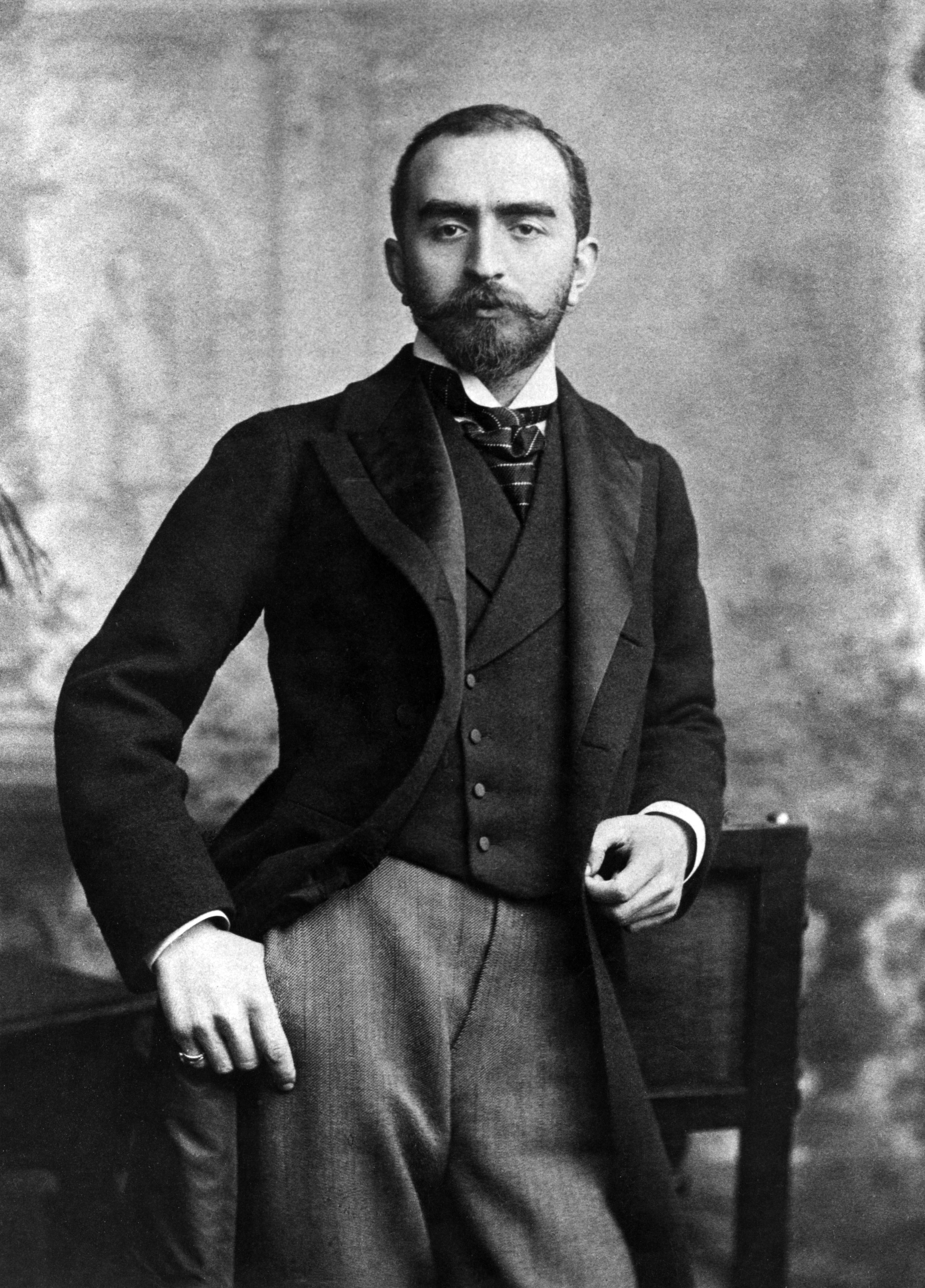 Picture of Calouste Gulbenkian in his late 20s, i.e. before 1900, so the unknown studio photographer has surely been dead for at least 70 years.